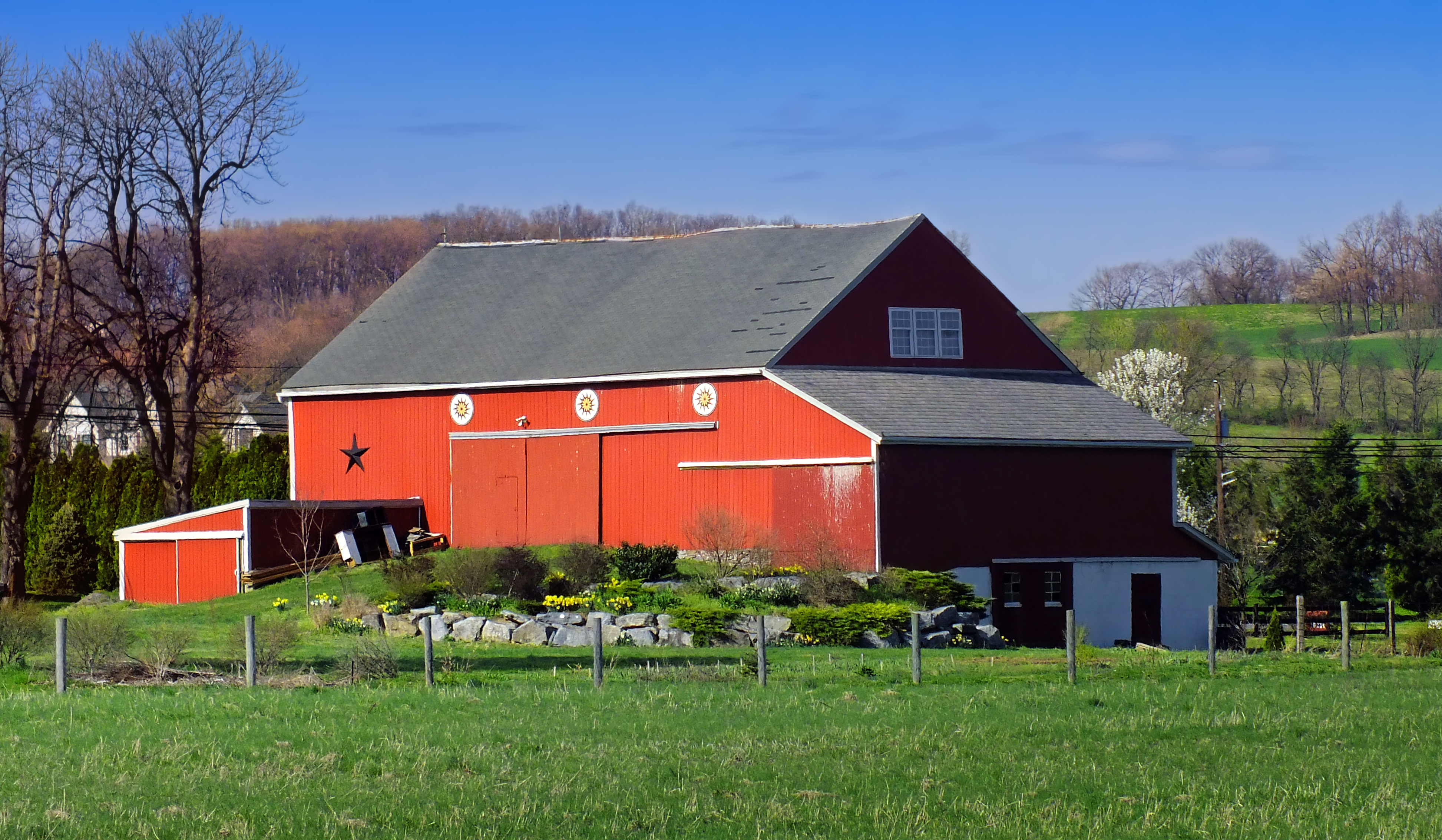 Pennsylvania Dutch barn near the neighborhood of Newtown, Breinigsville, Upper Macungie Township, Lehigh County.